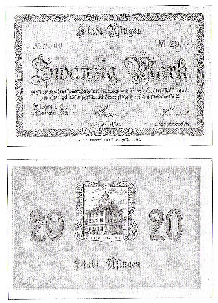 Banknote 20 Mark emergency money, issued by the city of Usingen vom 15. Oktober 1917